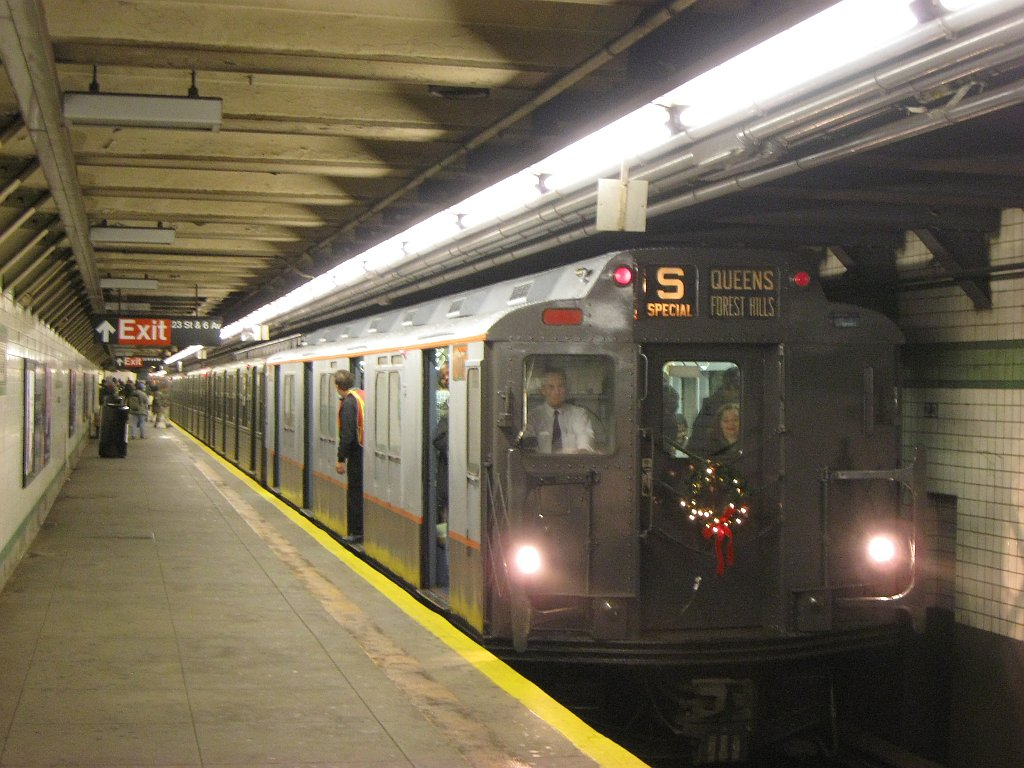 NYC Subway R7A car #1575 (wearing R10 colors and design) leads a special holiday V train, picking up customers at the 23rd Street station on 6 Avenue in New York City.